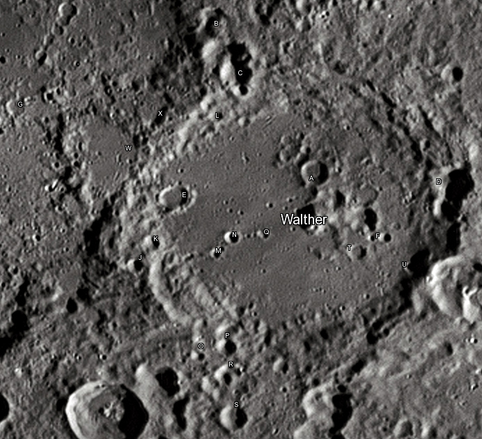 Walther lunar crater as seen from Earth with satellite craters labeled